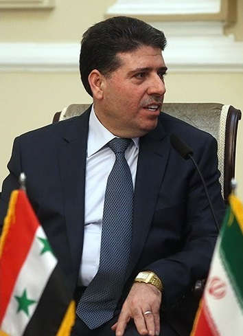 Syrian Prime Minister Wael Nader al-Halqi during a state visit of Iran